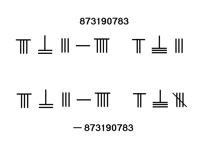 Rod number with blank representing zero 以空位表示0